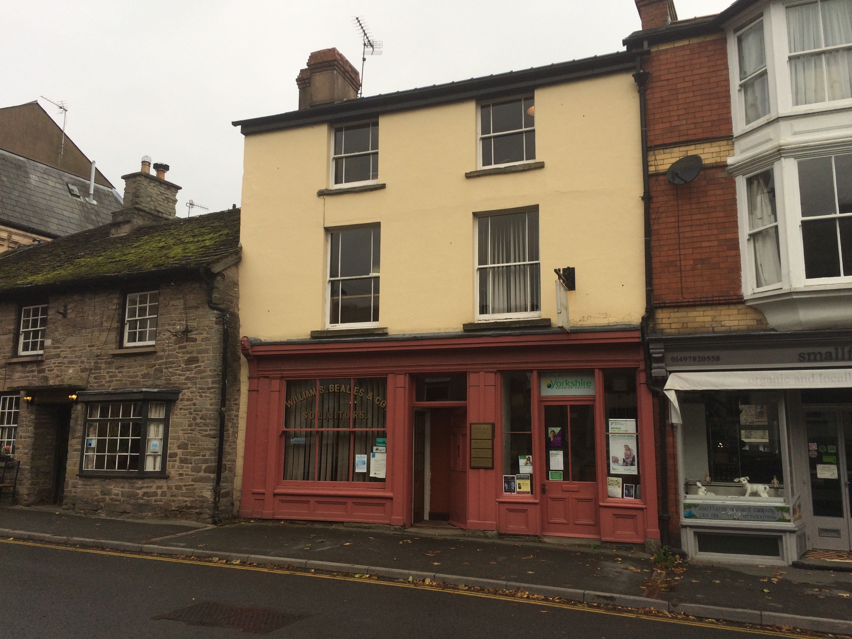 Williams Beales & Co Solicitors, 9 Broad Street, Hay-on-Wye, Breconshire. Previously offices of Herbert Rowse Armstrong, convicted of murder.